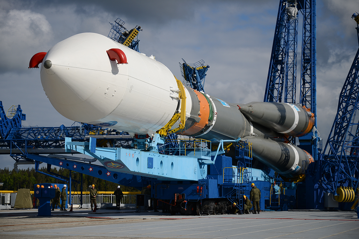 Soyuz-2.1b.